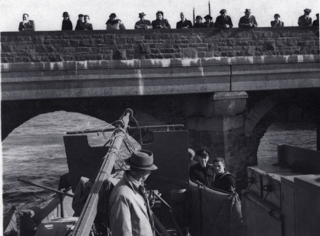 ML1301 passing under Bideford Bridge, January 1943